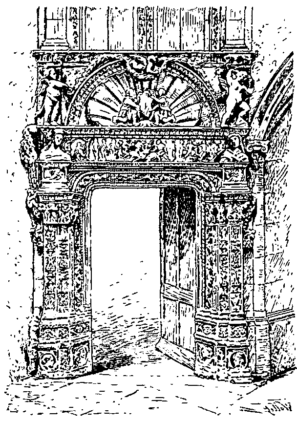 Detail (Figure 75) from page 237 of Palustre's L’Architecture de la Renaissance, 1892